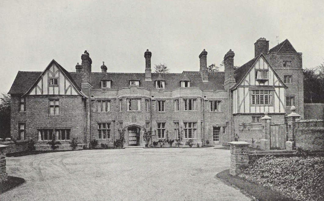 Huntercombe Place, Oxfordshire by Oswald Partridge Milne. From The Studio Yearbook of Decorative Art 1913